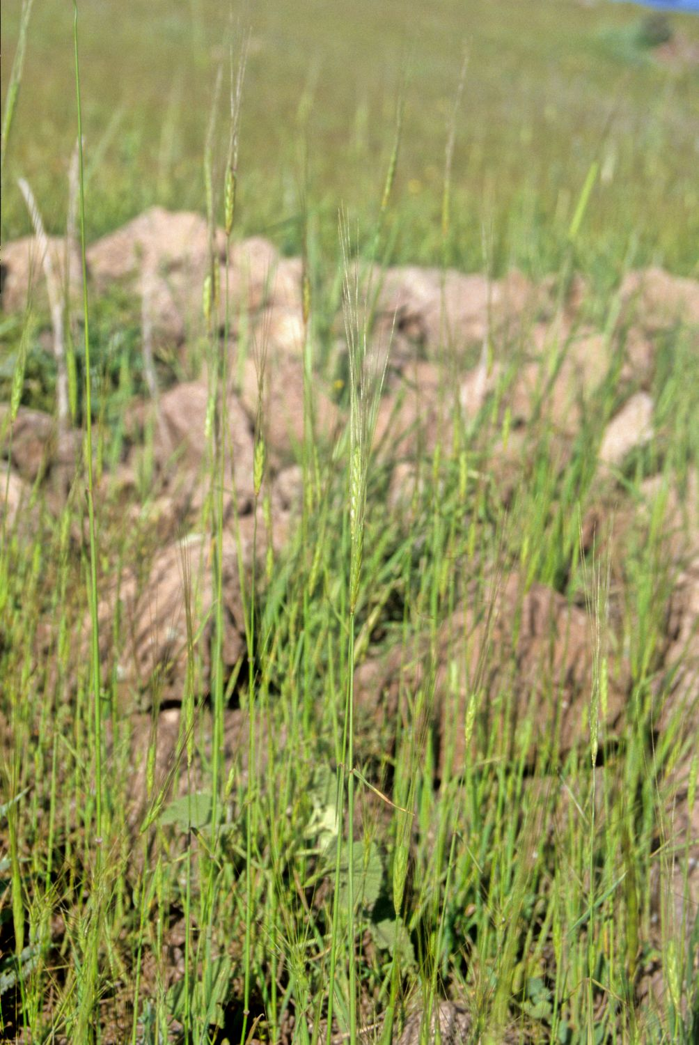 Triticum boeoticum Karadag, Karaman province, Turkey Credit: Mark Nesbitt